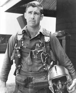 USAF 1st Lt. Karl W. Richter in Flight Suit